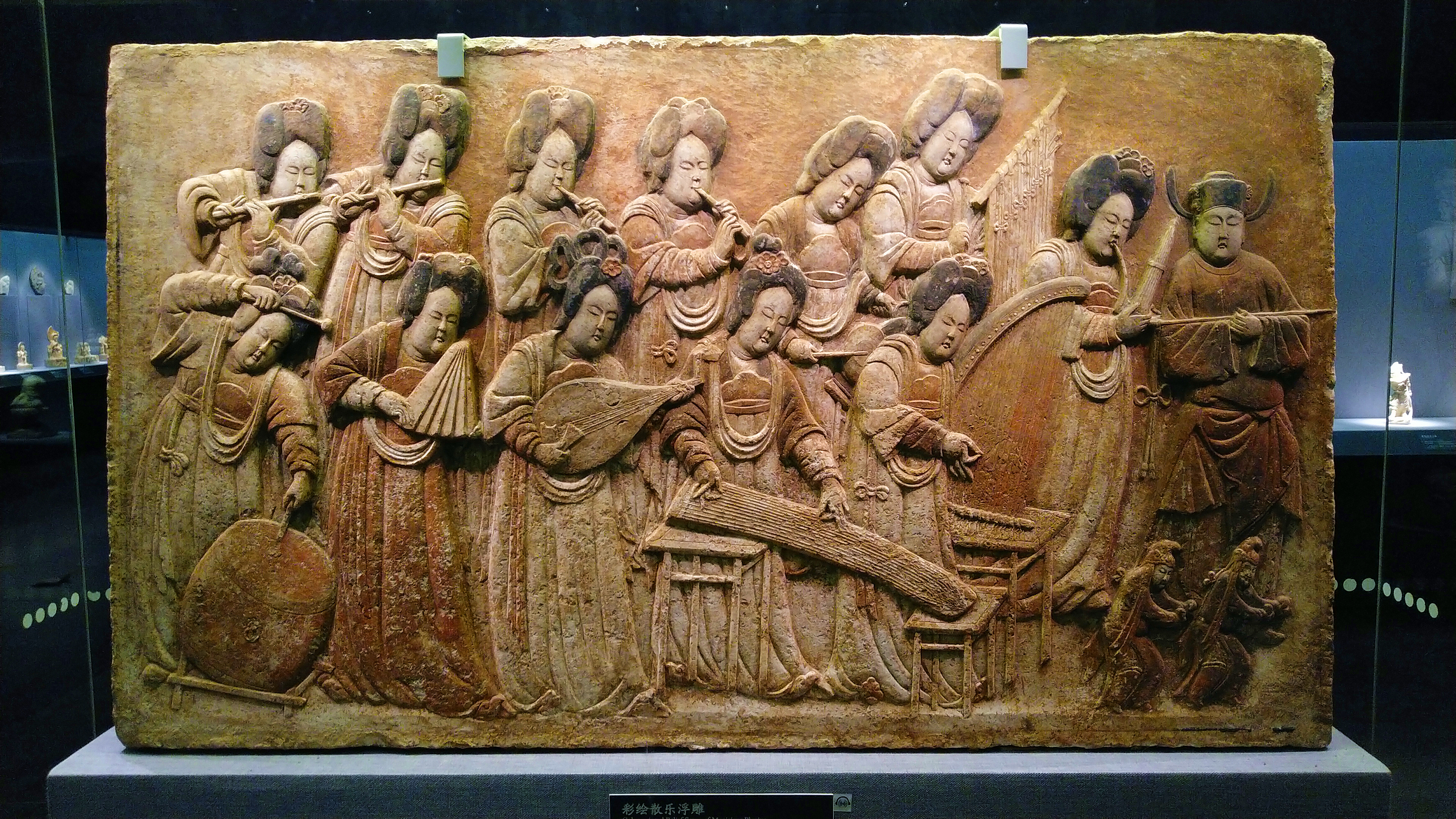 Color-painted Relief Scene of Musicians Playing. Five Dynasties (A.D.907-923). Unearthed from the Tomb of Wang Chuizhi in Xiyanchuan Village,Quyang County,Baoding City,Hebei Province,China. Existing in Hebei Museum.